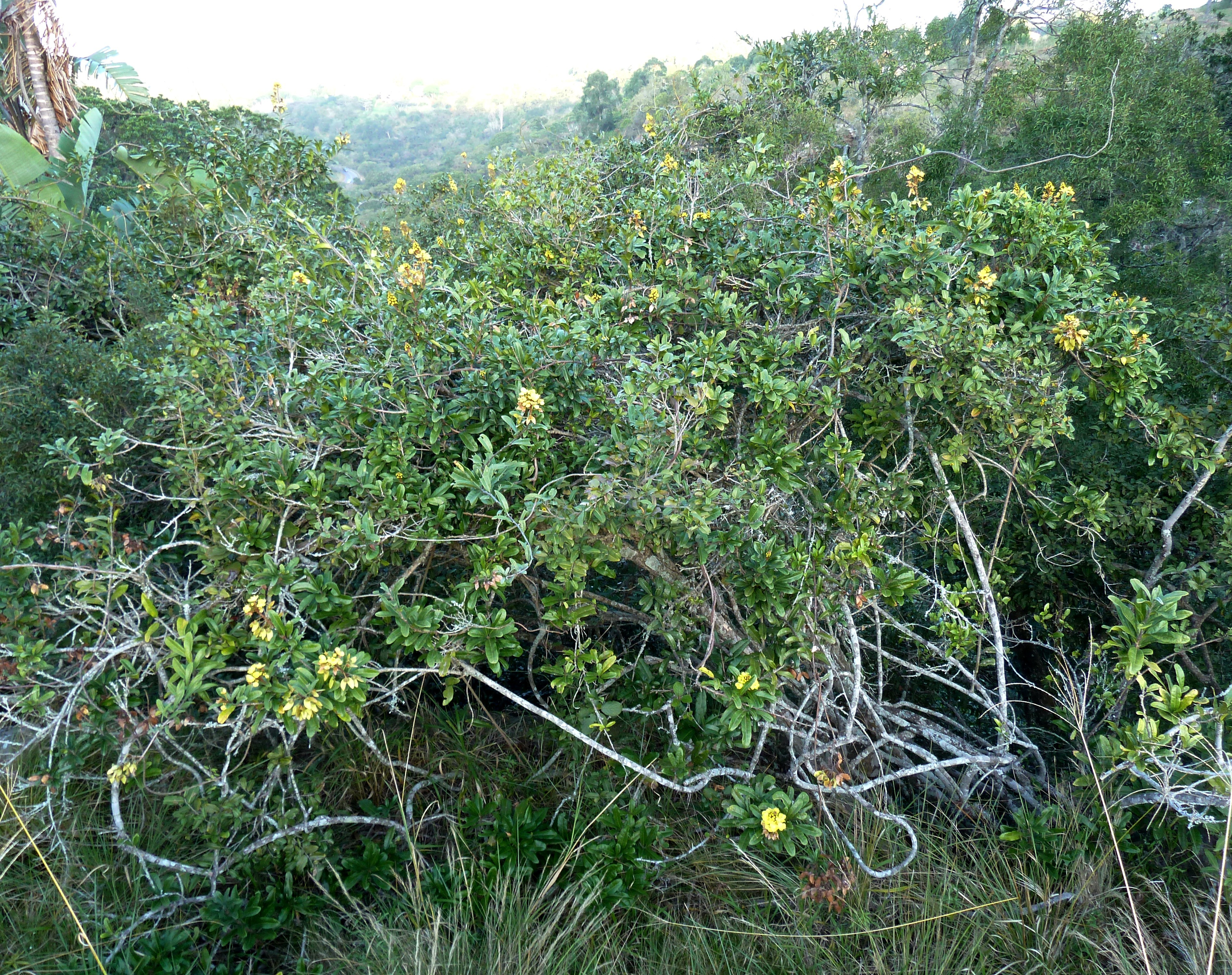 Moth fruit in the Krantzkloof Nature Reserve, growing as a straggling shrub on the ledge of a cliff.